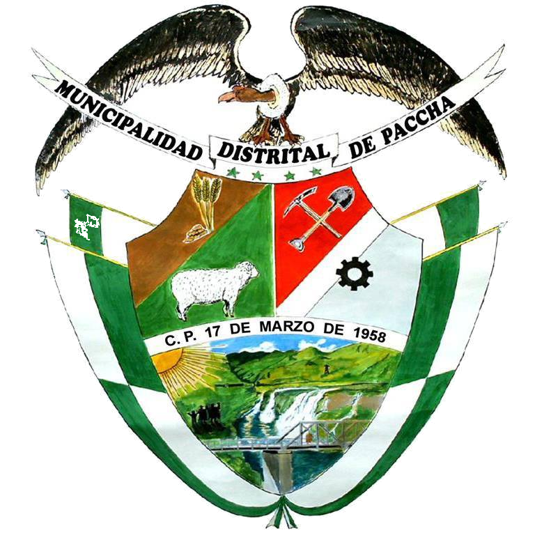 This is the shield of the municipality of Paccha in Peru.